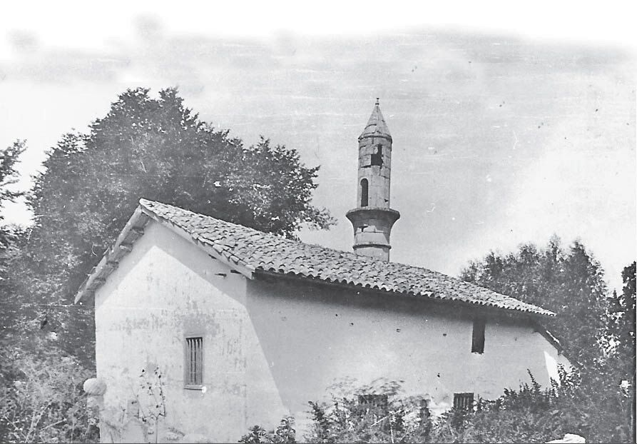 Mosque Ulakly, 1890. Crimea.